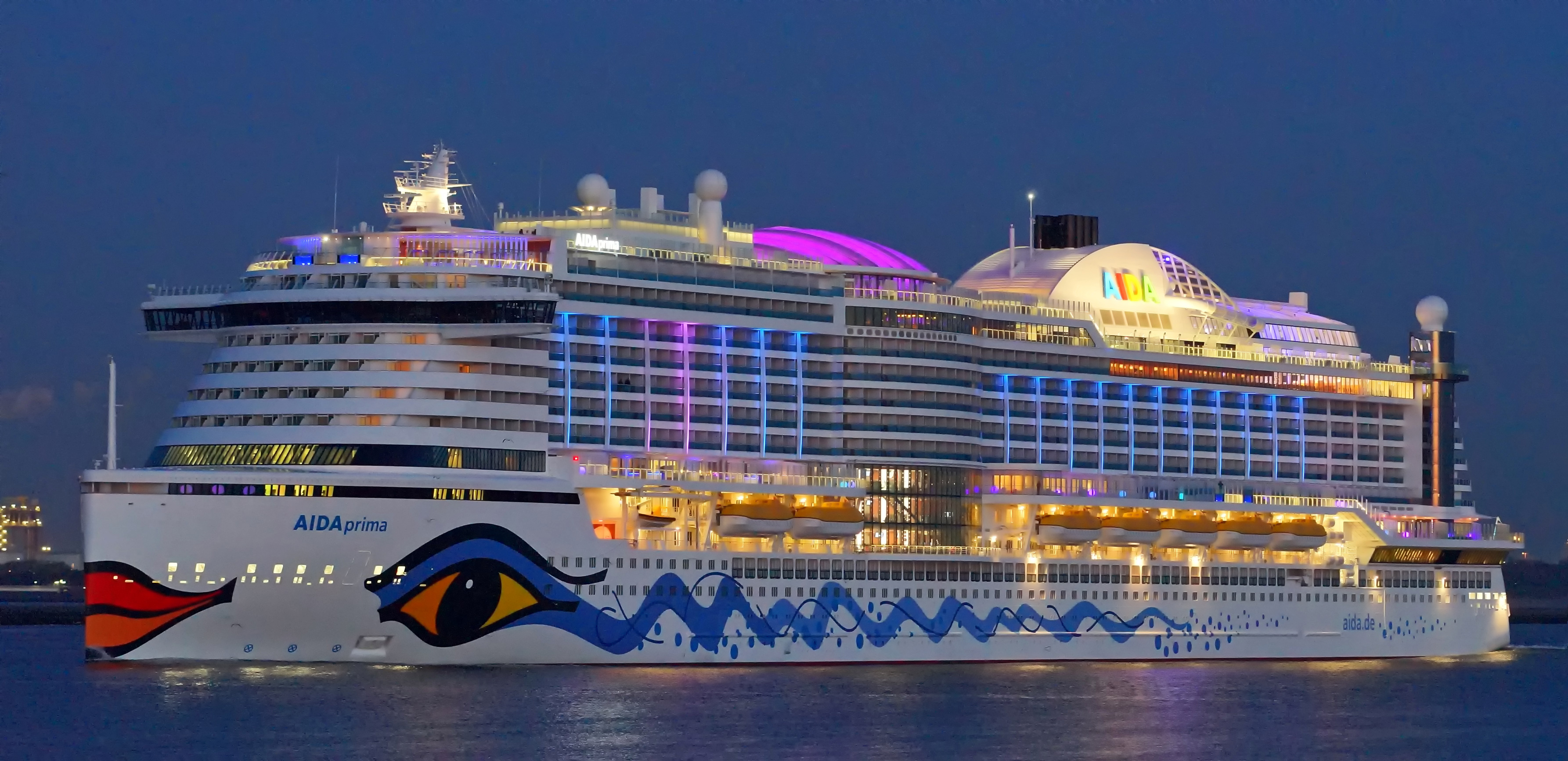 AIDAprima, Nieuwe Waterweg - Hoek van Holland